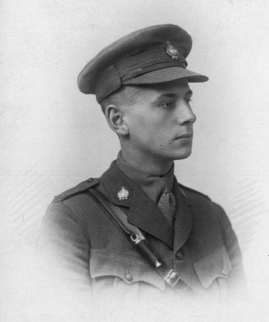 Leslie Frost as a young man